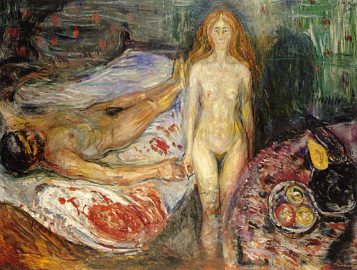 Death of Marat by Edvard Munch, 1907